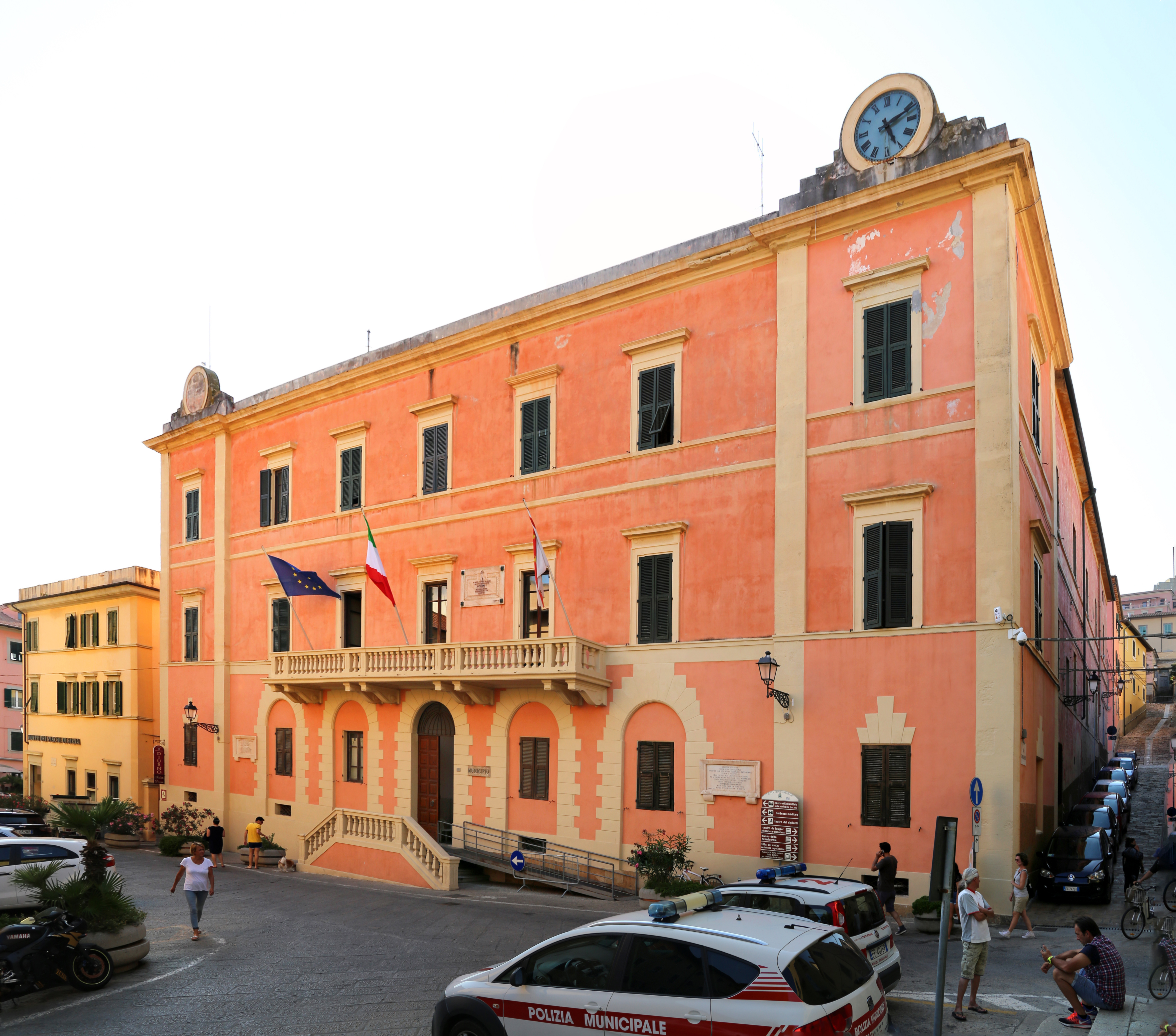 Town Hall (Portoferraio)